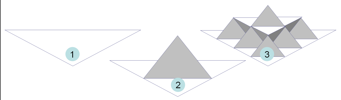 von Koch surface. Extension of the von Koch curve in 2 dimensions. This image shows 2 iterations.